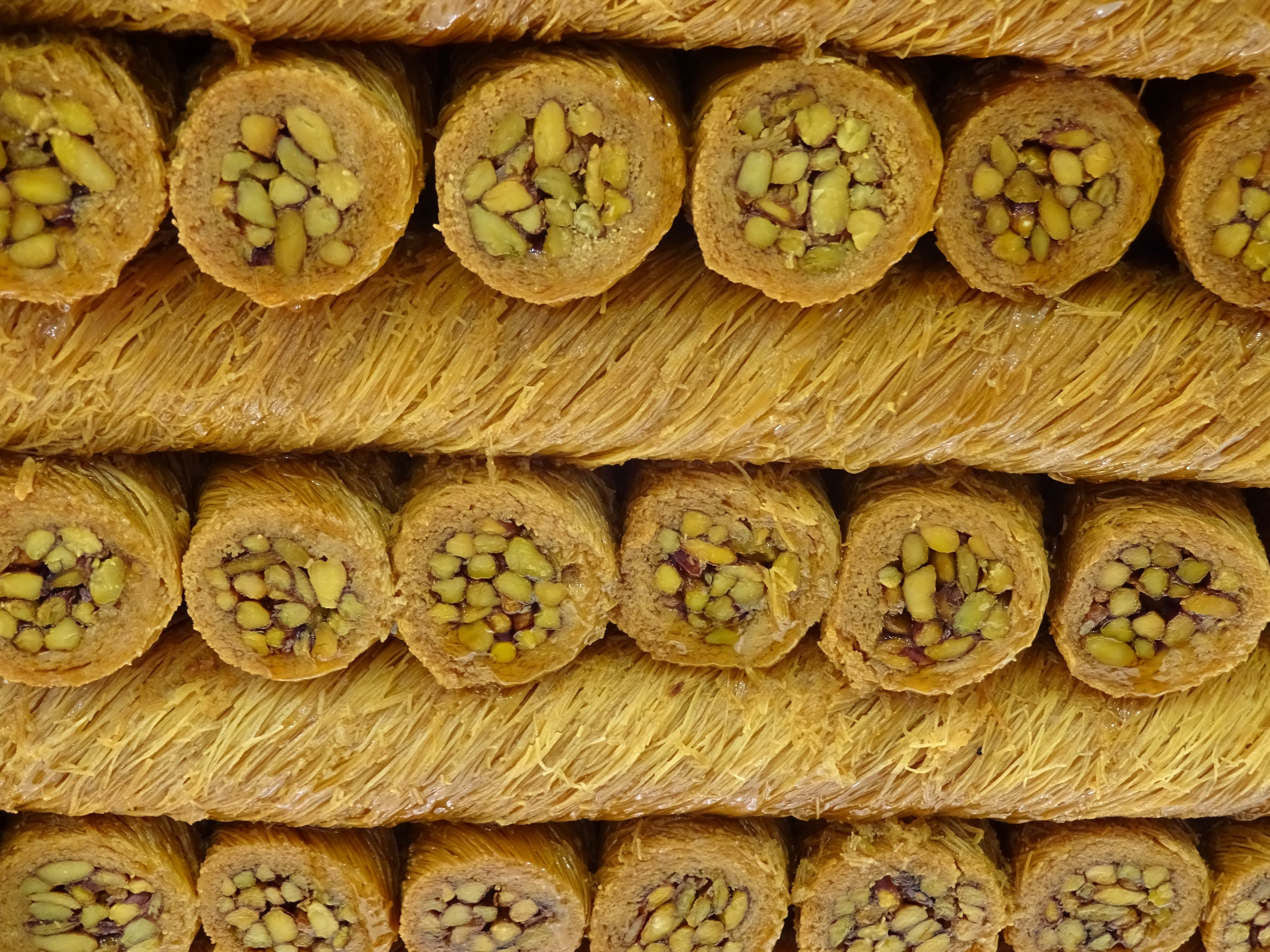 Kadayıf Dolmasi is a sweet dish, which is prepared from Kadayif noodles and filled with pistachios or walnuts. Photographed in Istanbul in a bakery in Taksim